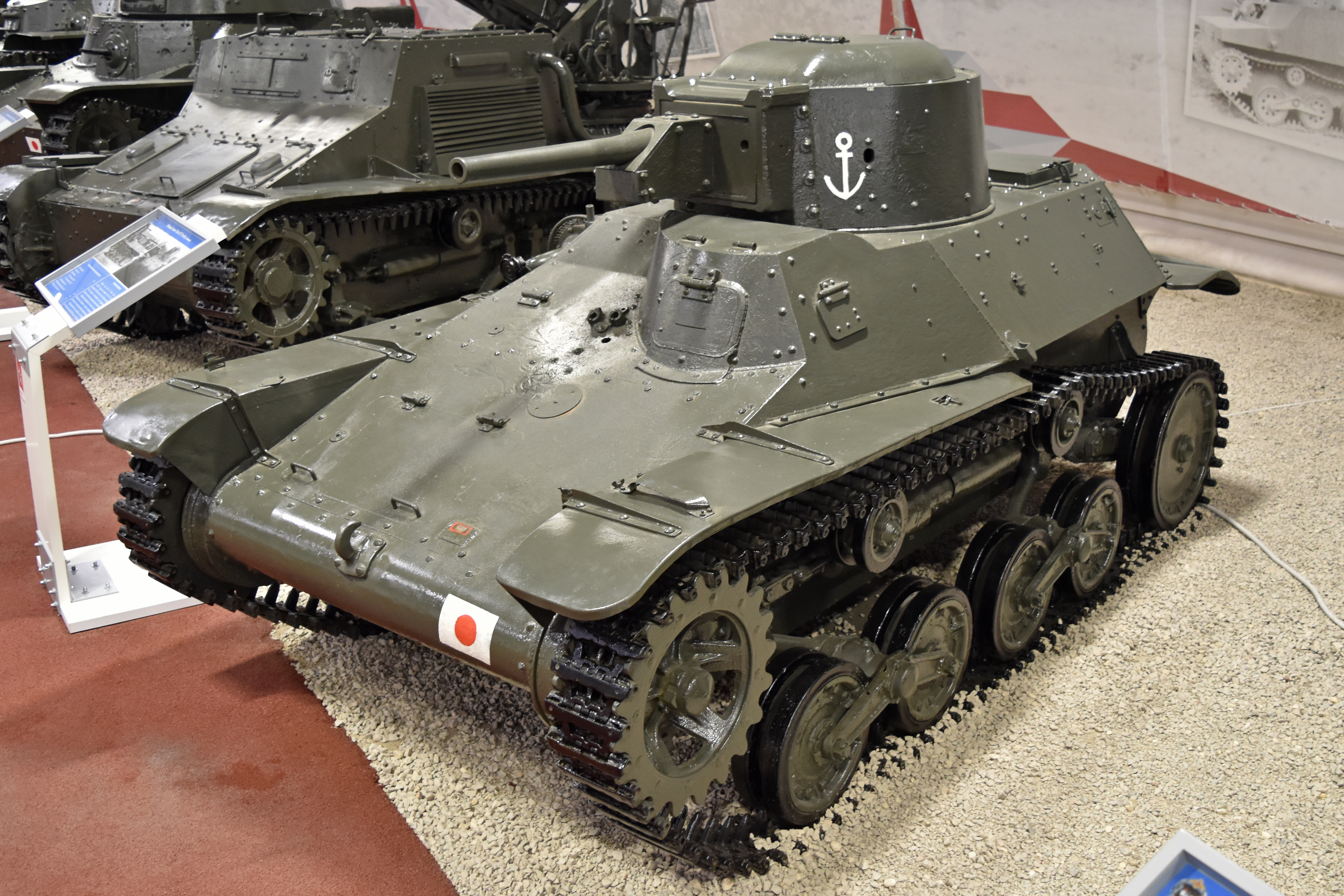 Japanese WW2 era Tankette Manufacturer:- Hiro Motor Co Built:- 1938 to 1942 Total Production:- 596 Main Armament:- 37mm Type 94 tank gun Designed to replace the Type 94 TK in the light tank role. Saw action in the Second Sino-Japanese war against the Italian built CV-33 tanks of the Chinese National Revolutionary Army and also against the Soviet Red Army at the Battle of Nomonhan in 1939. During WW2 they were fundamental during the Japanese victories in Malaya and the Philippines, as their small size allowed them along narrow roads and over lighter bridges. Recovered from Mukden (now Shenyang) in 1945, this example is on display in Hall 12 of the Patriot Museum Complex. Park Patriot, Kubinka, Moscow Oblast, Russia. 25th August 2017